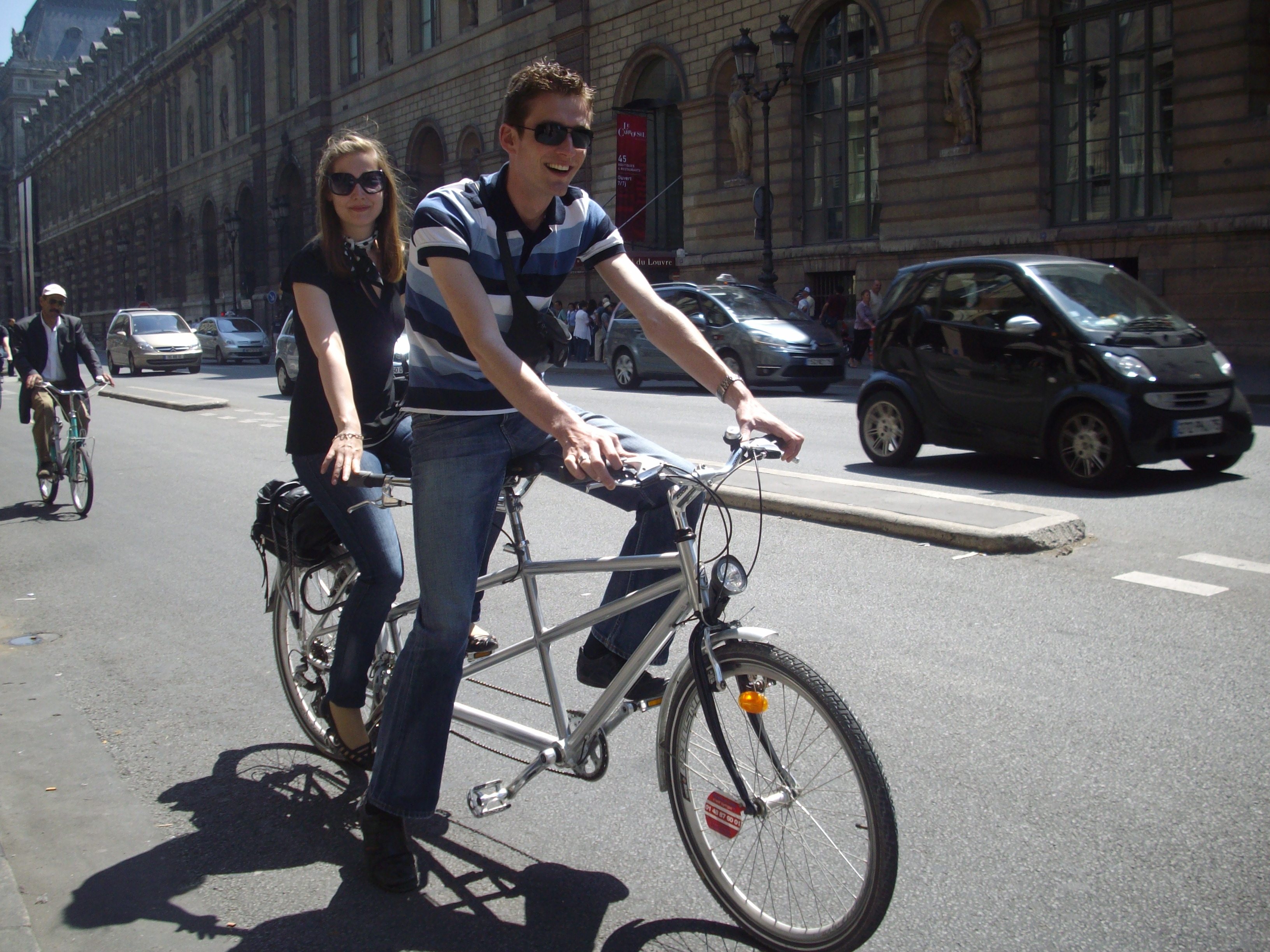 A tourist couple cycling on the road outside the "Louvre Museum" in Paris.